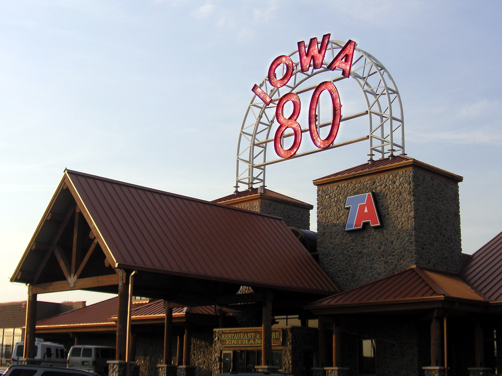 Exterior of Iowa 80 truckstop. Modified version of Image:Iowa 80 truck stop.jpg by Beatrice Murch.